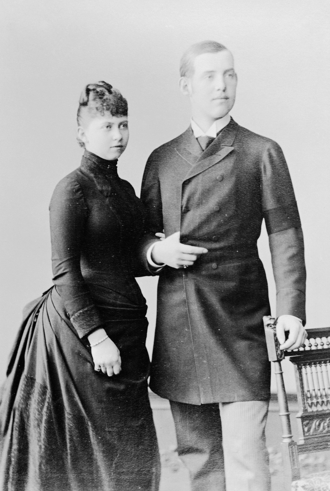 Princess Sophia of Prussia and her later husband King Constantine I of Greece …